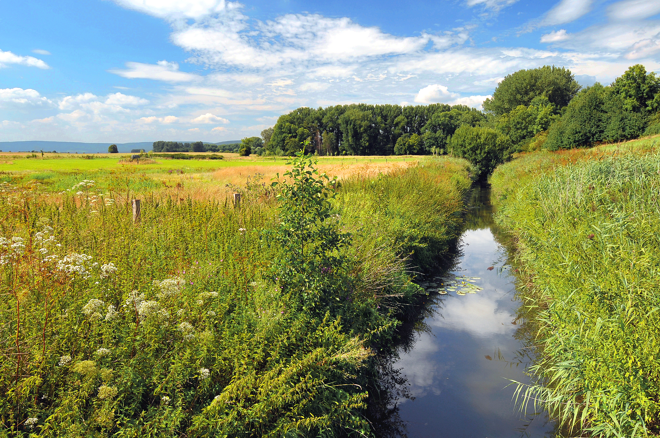 River "Haller" in Hallerburg, Nordstemmen, Lower Saxony, Germany